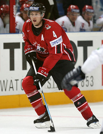 Eric Brewer at the 2007 IIHF World Championship